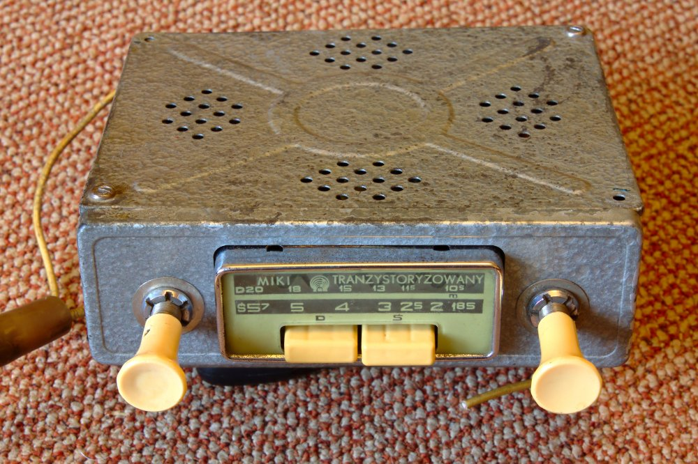 Polish car radio Miki